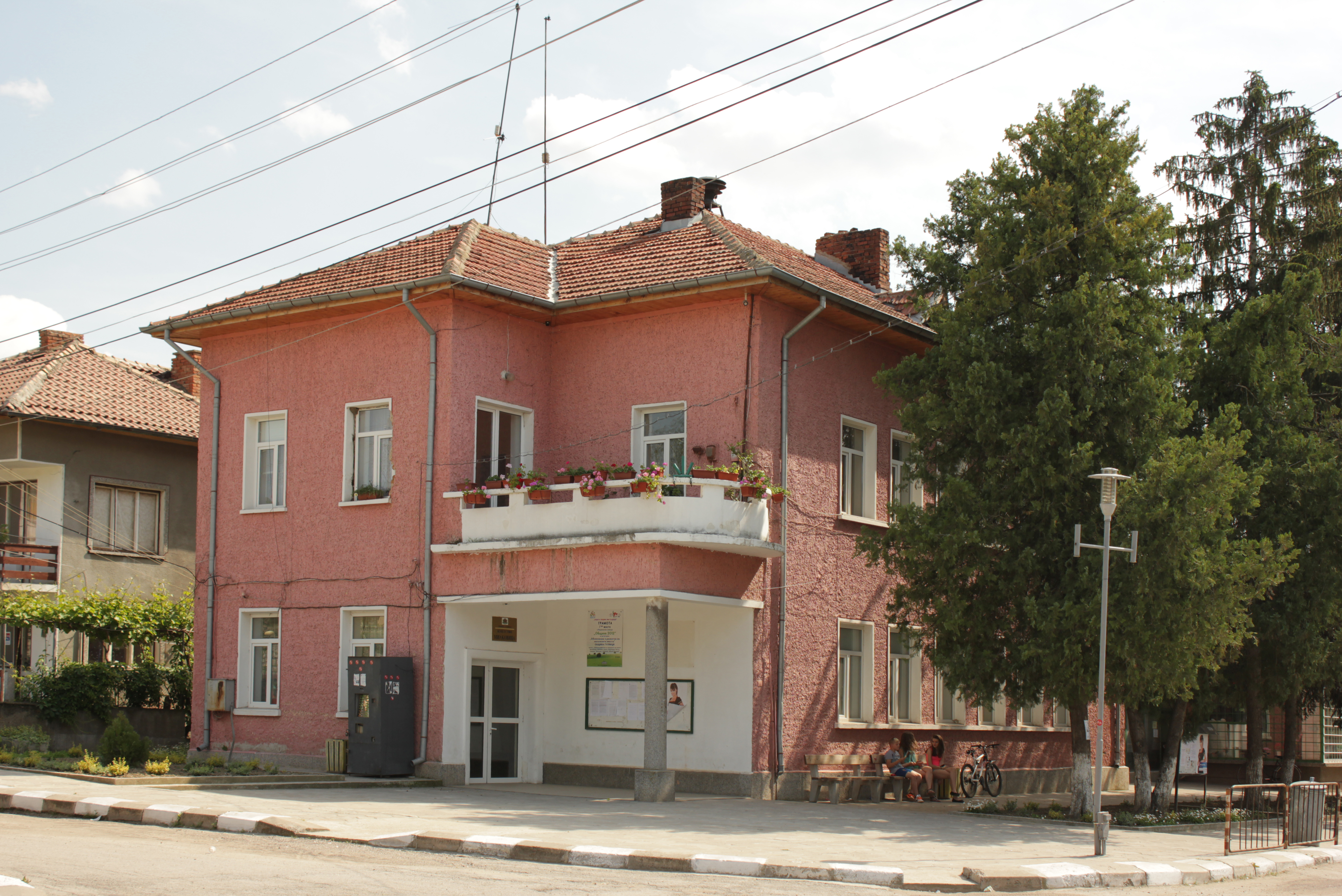 Milkovitsa municipality administration